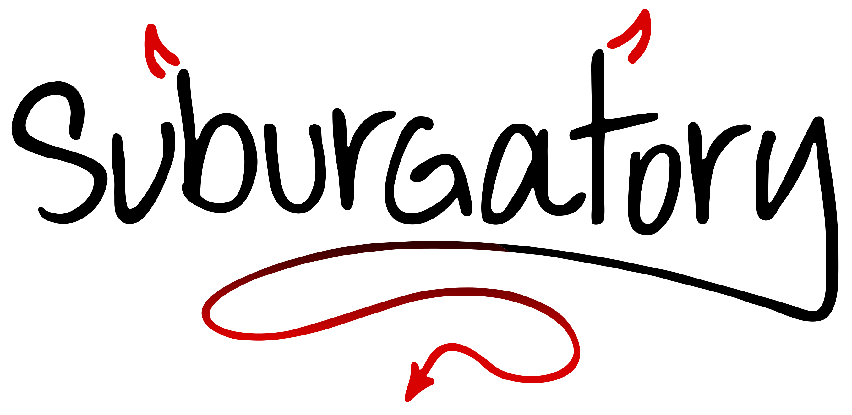 Original logo used for the promotion of the television series Suburgatory